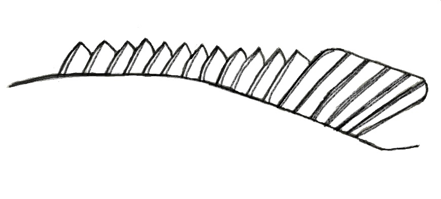 Dorsal fin of Scarbreast tuskfin(Choerodon azurio).